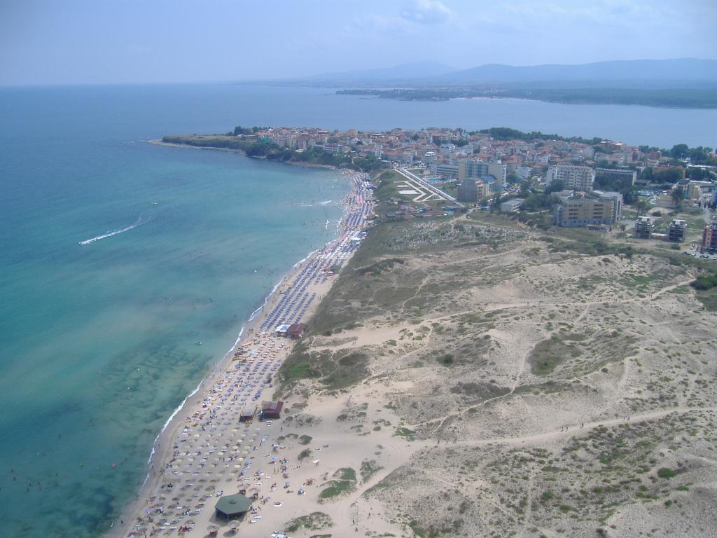 Primorsko north beach